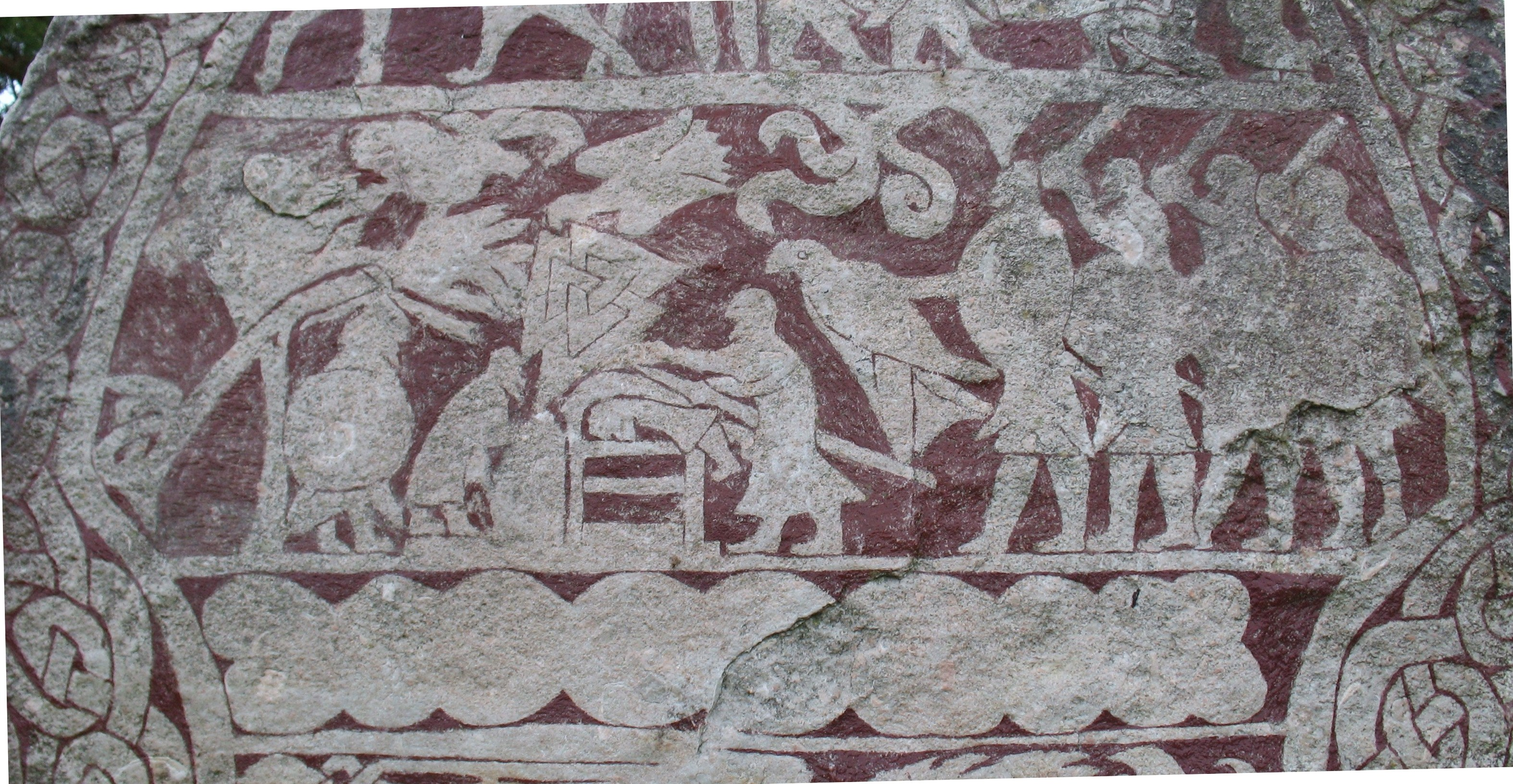 Scene from Stora Hammar stone